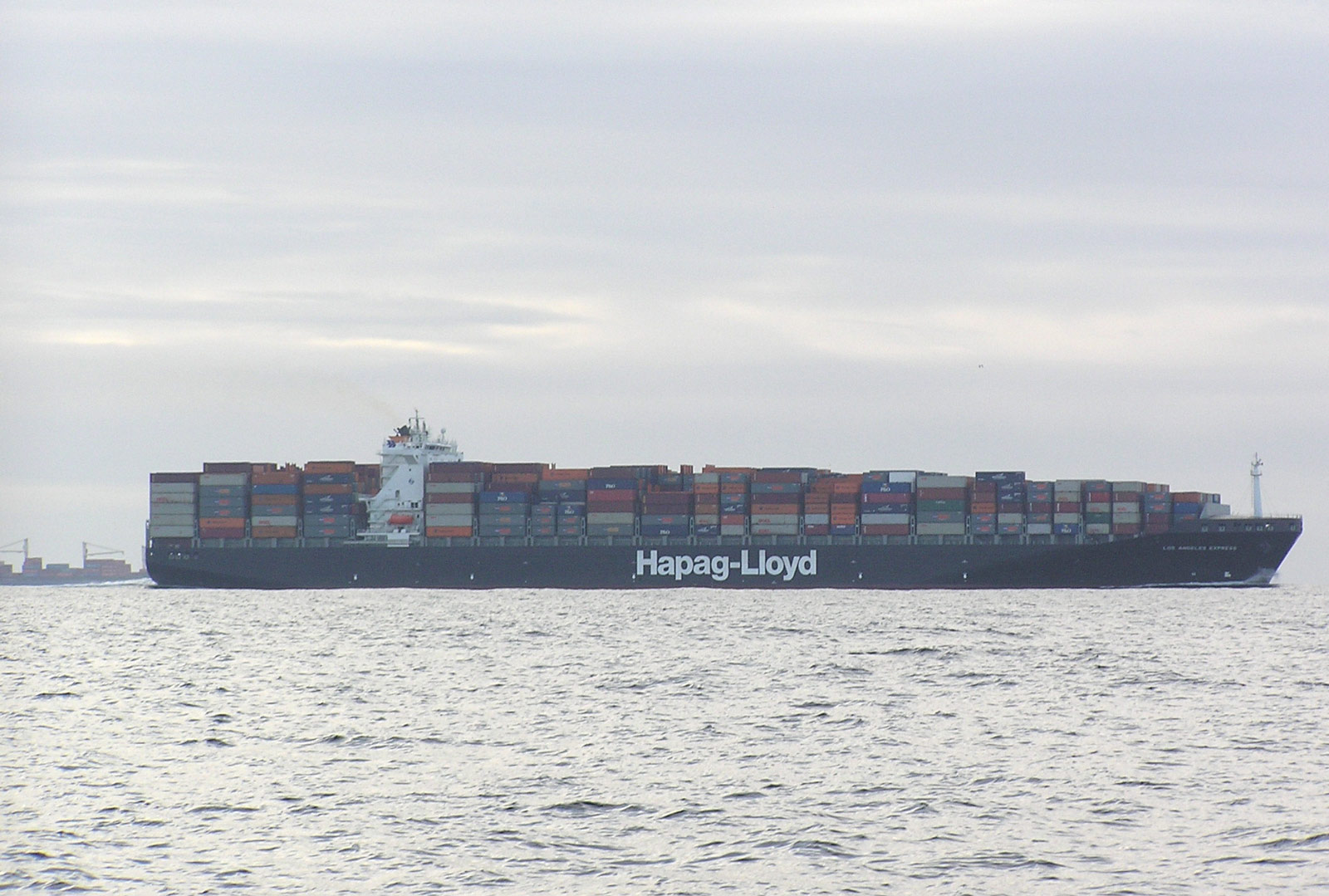 The Los Angeles Express IMO Number: 9252541 MMSI Number: 211781000 Callsign: DCPZ2 Length: 300 m Beam: 40 m